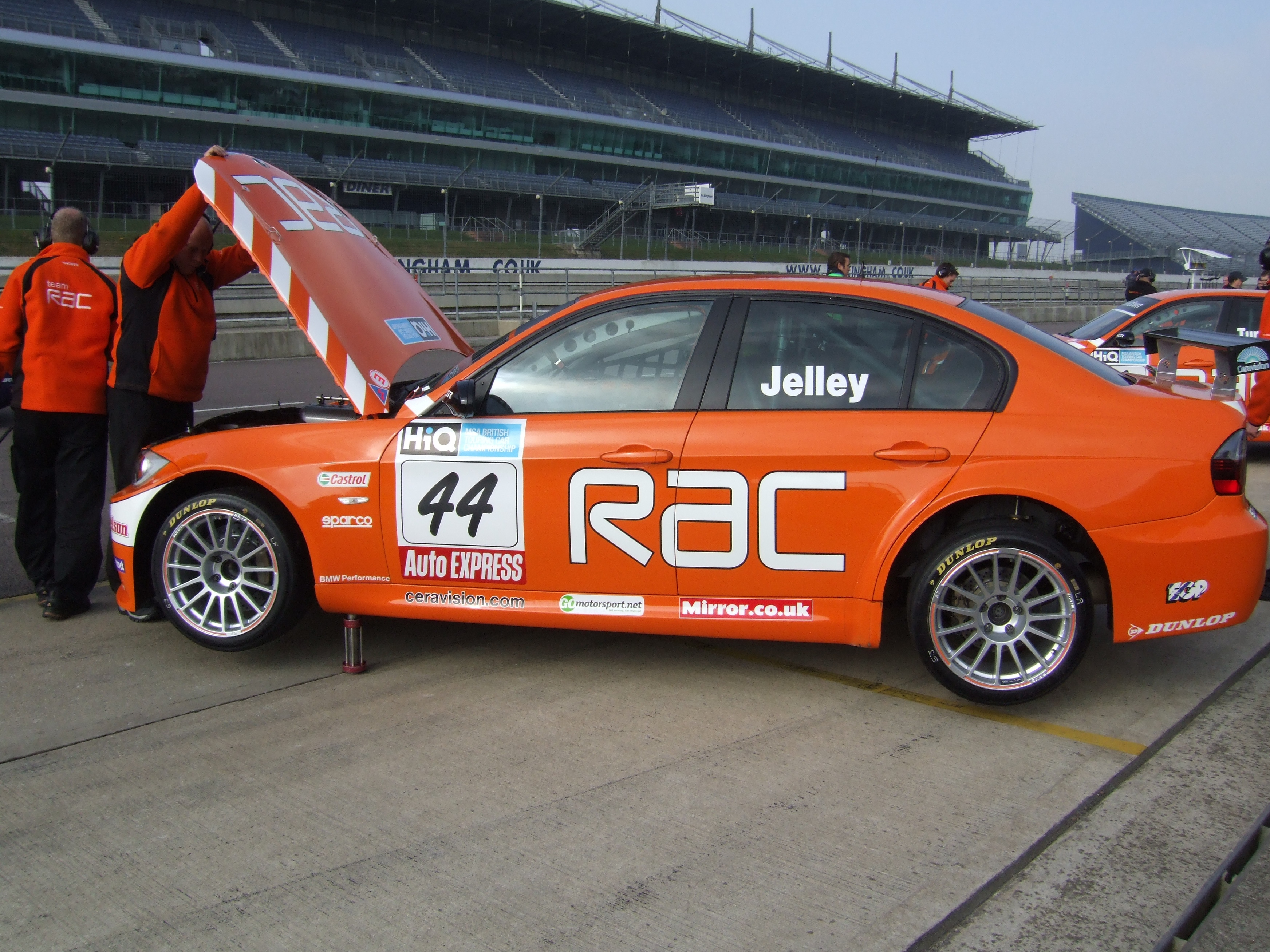 From BTCC Media Day held at Rockingham Speedway. Steven Jelley's Team RAC BMW, in typical RAC Orange.